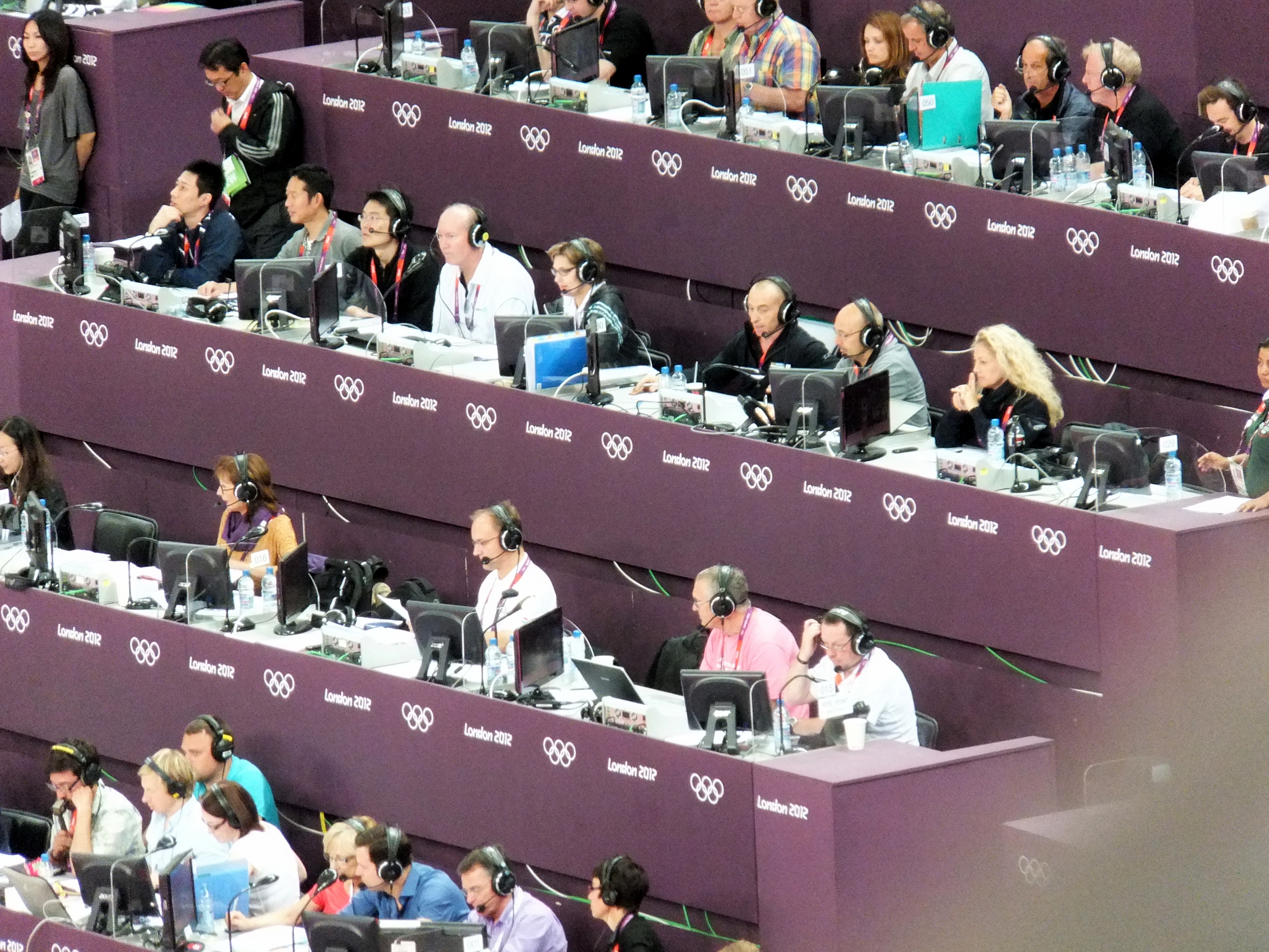 The world's press at 2012 Summer Olympics Fujifilm FinePix F770EXR